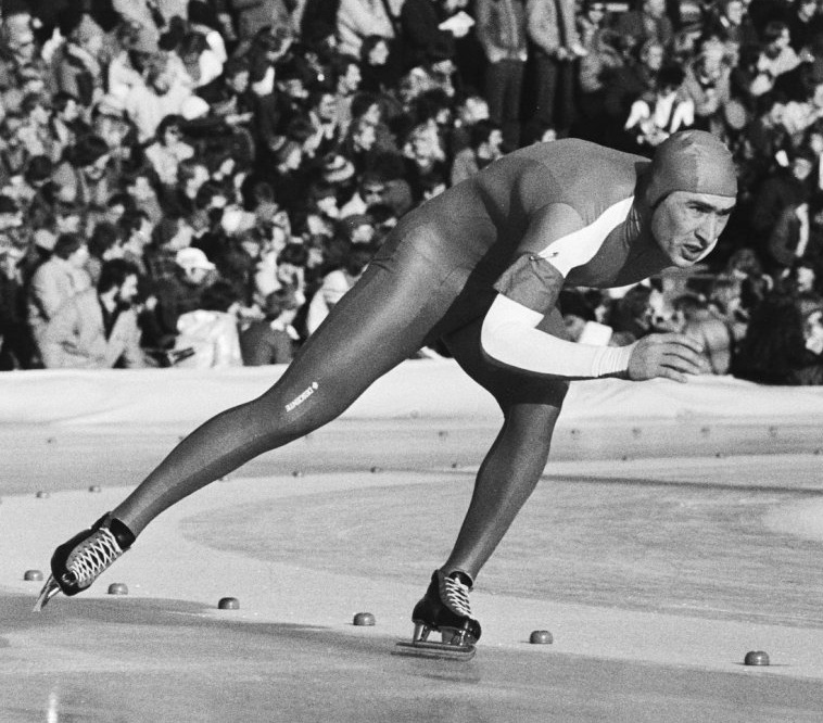 Wereldkampioenschappen schaatsen heren allround in Heerenveen. Viktor Lyoskin (Sovjet-Unie) in actie.